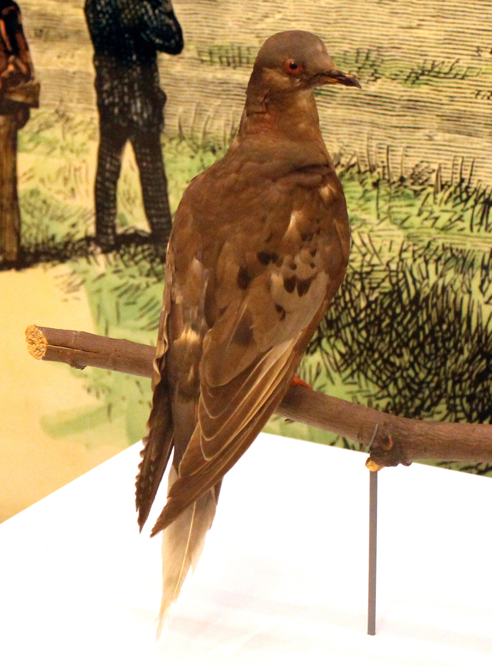 Martha, the last passenger pigeon, mounted in a display case in the National Museum of Natural History, June, 2015. Display caption: "Passenger Pigeon (Martha) / Specimen USNM 223979/236650 / collected 1914 / The last known Passenger Pigeon, Martha (named for Martha Washington), died at the Cincinnati Zoological Garden in 1914. Her body was frozen in a block of ice and shipped by train to the Smithsonian Institution, where she is now part of the research collection and not normally on view."